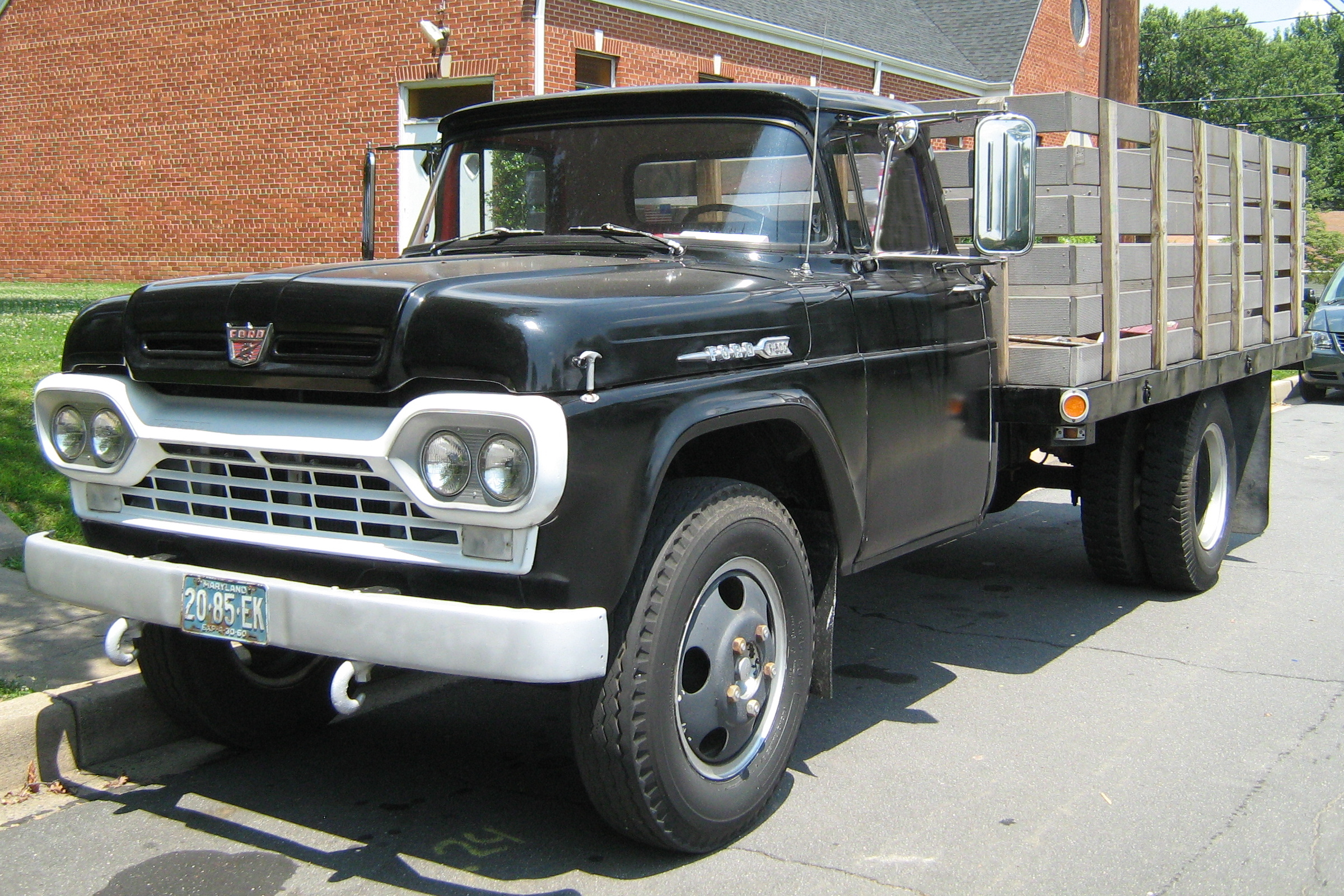 1960 Ford F-500 stake truck in black